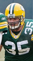 Seattle vs. Green Bay • December 27, 2009 at Lambeau Field in Green Bay, Wisconsin.